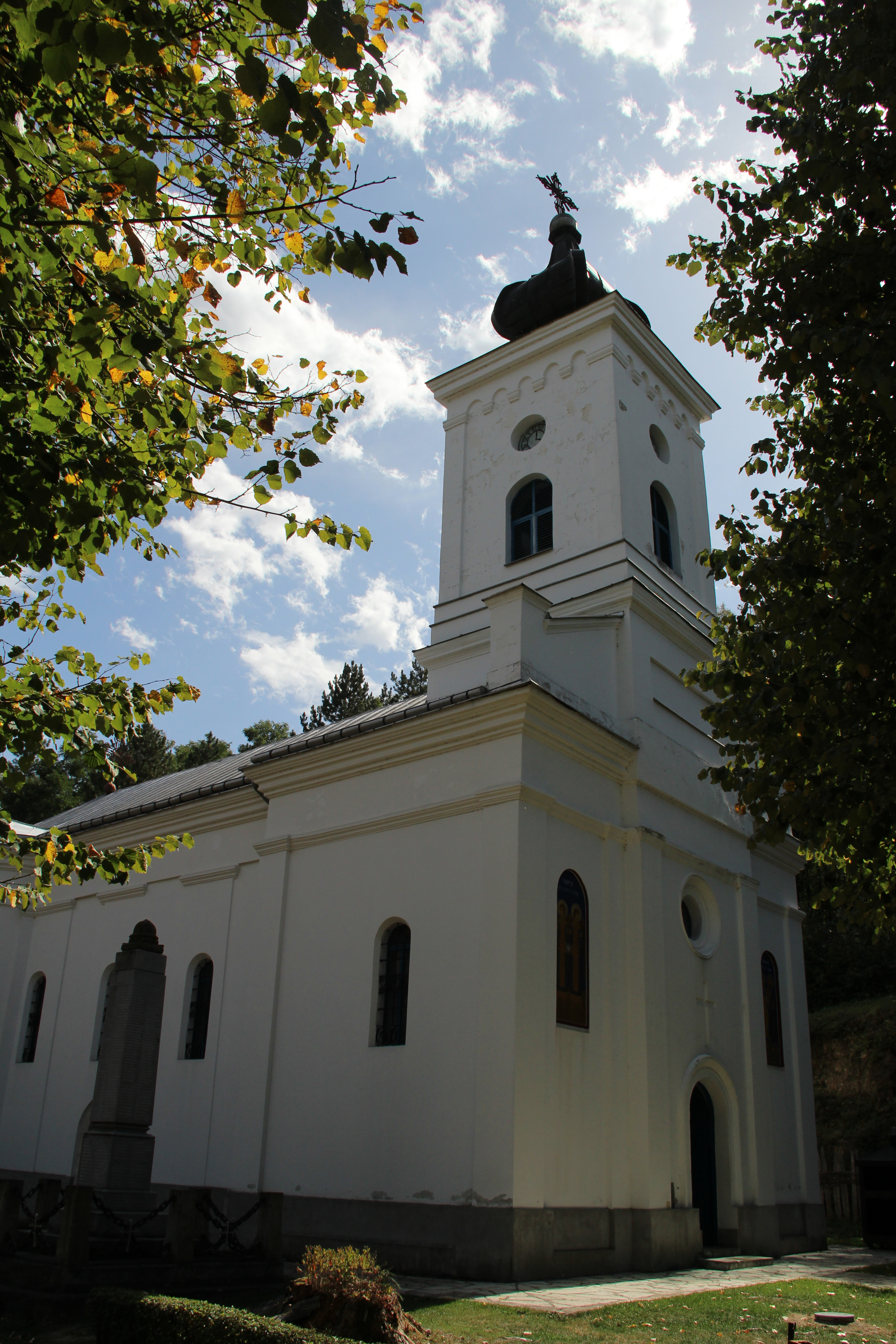 Brankovina village - Municipality of Valjevo - Western Serbia - Cultural historical complex 4